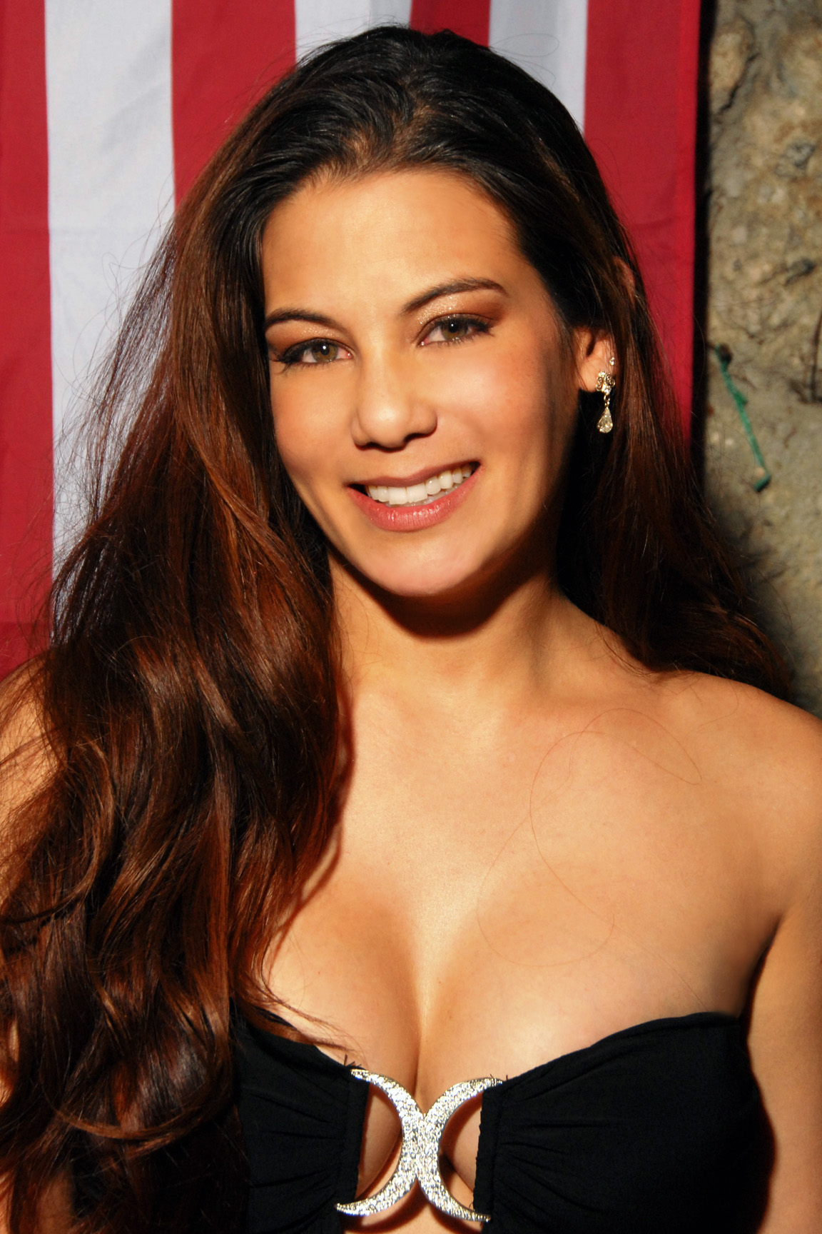 Ryder Skye at Les Deux, Hollywood, CA on February 22, 2010 - photo by Glenn Francis of